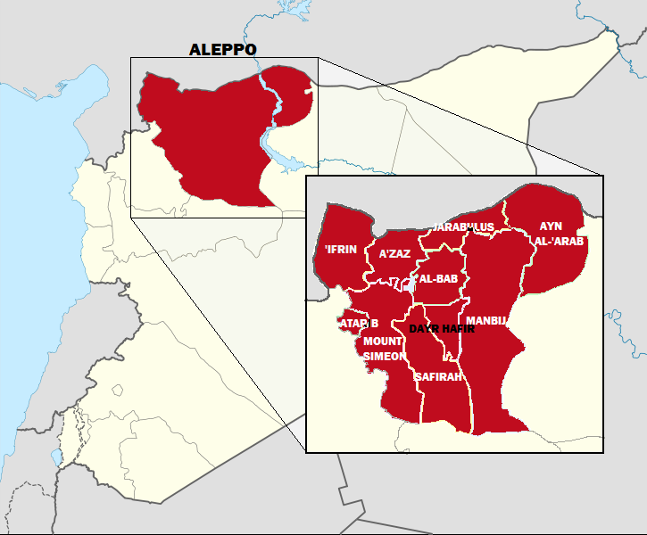 Map of the Governorate of Aleppo — with its 10 district subdivisions labeled. The Aleppo Governorate is located in northern Syria, and its northern boundary is along the Syrian-Turkish border..